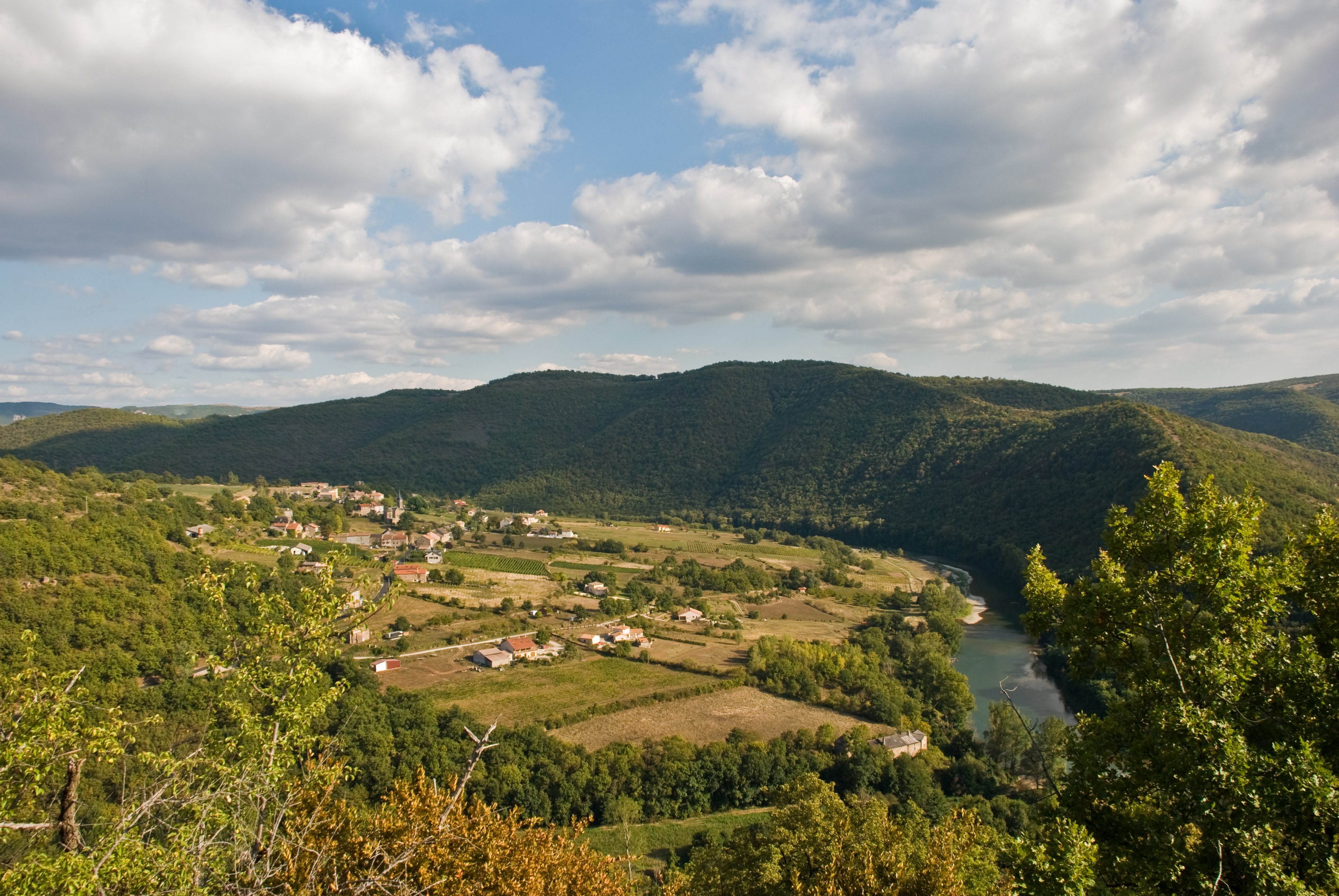 Truyère Valley at Saint-Hippolyte, Aveyron, France, Sept. 2008